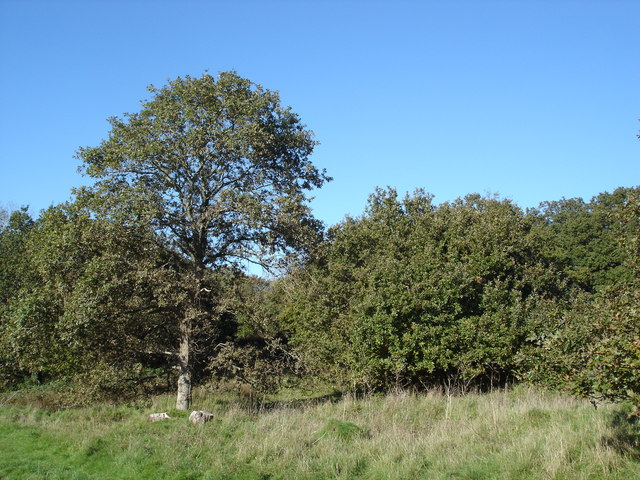 Castle Hill Wood